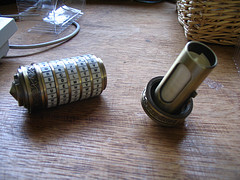 Alex Brewer